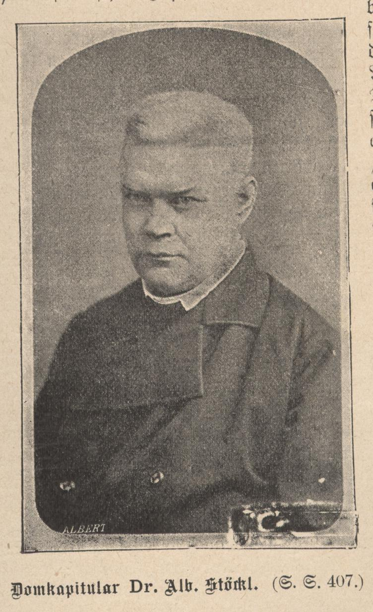 Dr. Albert Stoeckl, priest, author, theologian and German member of the parlament (Reichstag)